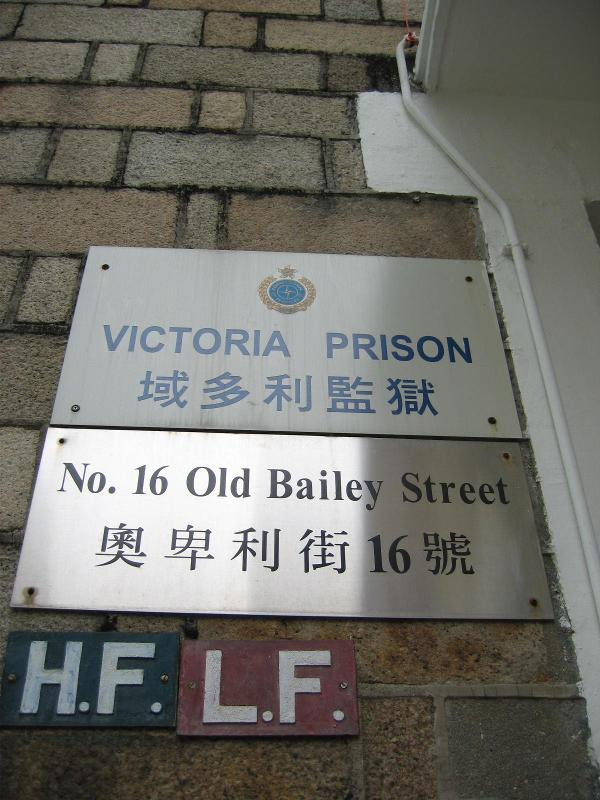 by FotoKin - Old Bailey Street, front door of the Victoria Prison in Hong Kong.